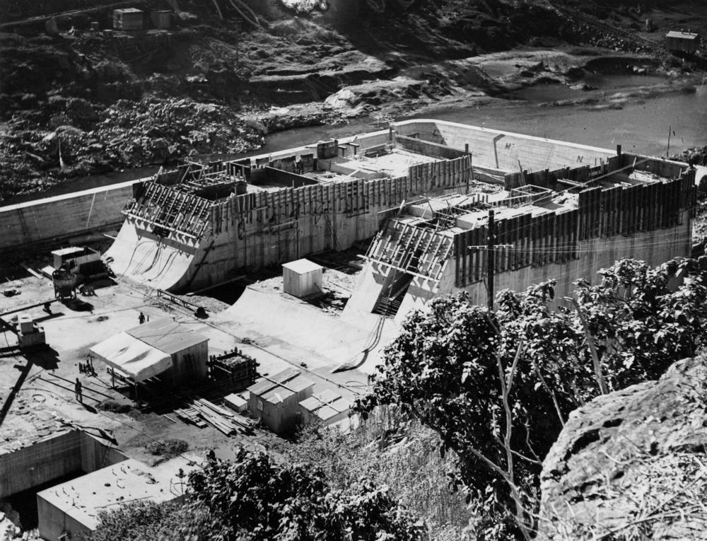 Somerset Dam during construction, July 1938. Somerset Dam was constructed between 1935 and 1959 with suspension of construction during the Second World War. The dam is situated on the Stanley River approximately 220 km upstream from the mouth of the Brisbane River. This digitised photograph has been dedicated to: Archael Cultural Heritage Services in recognition of their donation to the Imagine Community Campaign 2006.